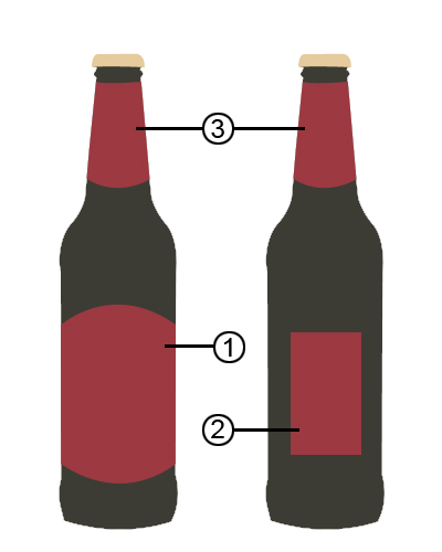 Beer bottle diagramm